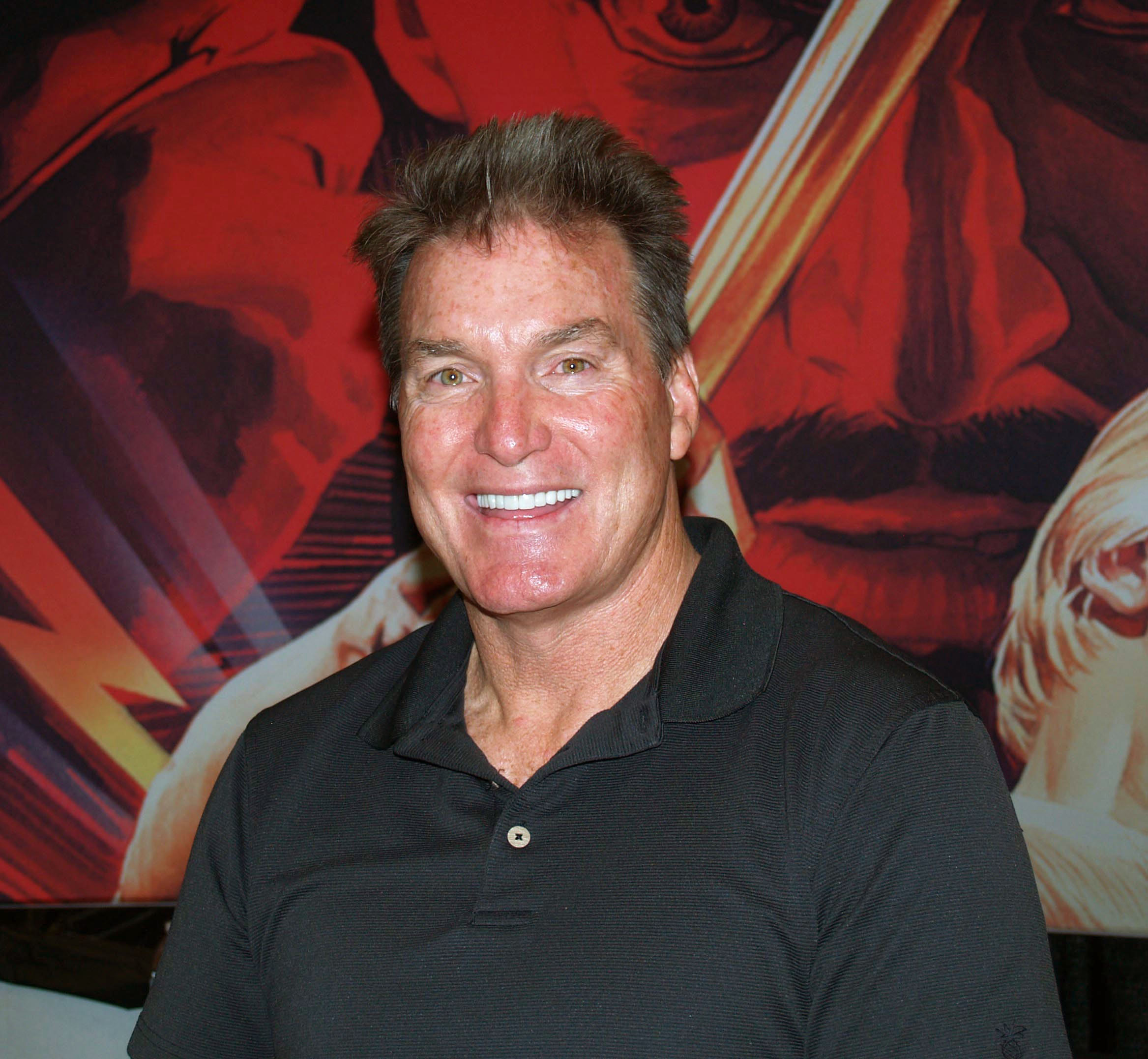 Flash Gordon actor Sam J. Jones at the Meadowlands Exposition Center in Secaucus, New Jersey on April 17, 2016, Day 2 of the 2016 East Coast Comicon. This photo was created by Luigi Novi. It is not in the public domain, and use of this file outside of the licensing terms is a copyright violation.